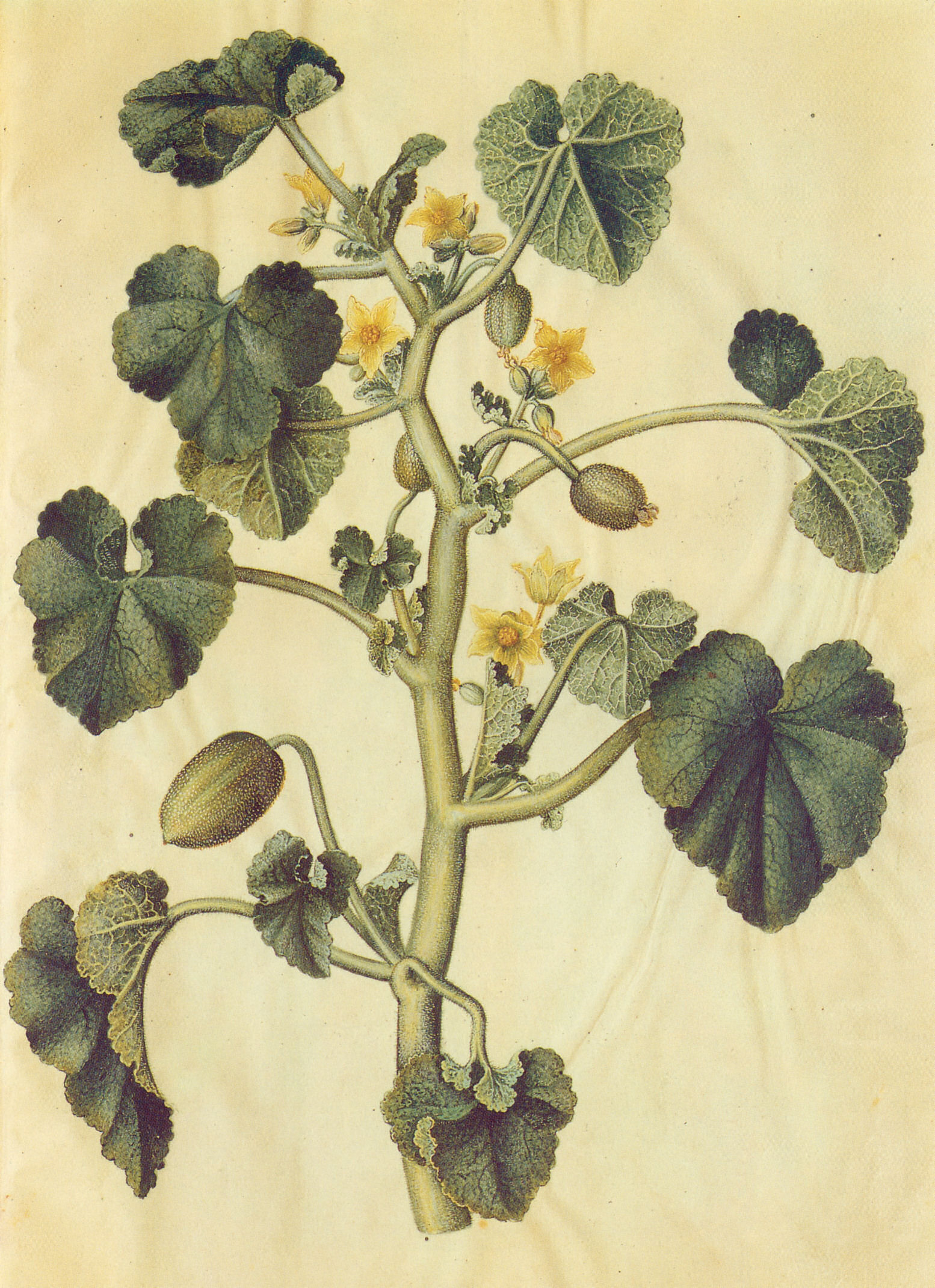 Ecballium elaterium, gouache on vellum, in: Gottorfer Codex